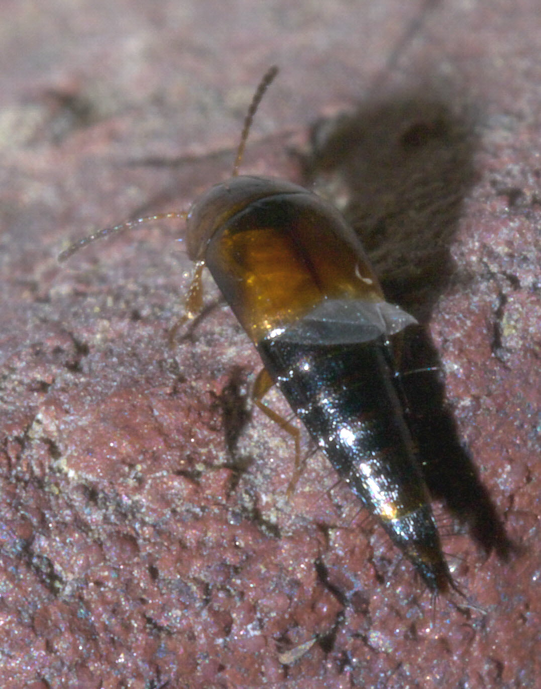 Tachyporus, Subfamily: Crab-like Rove Beetles, ID Confidence: 98